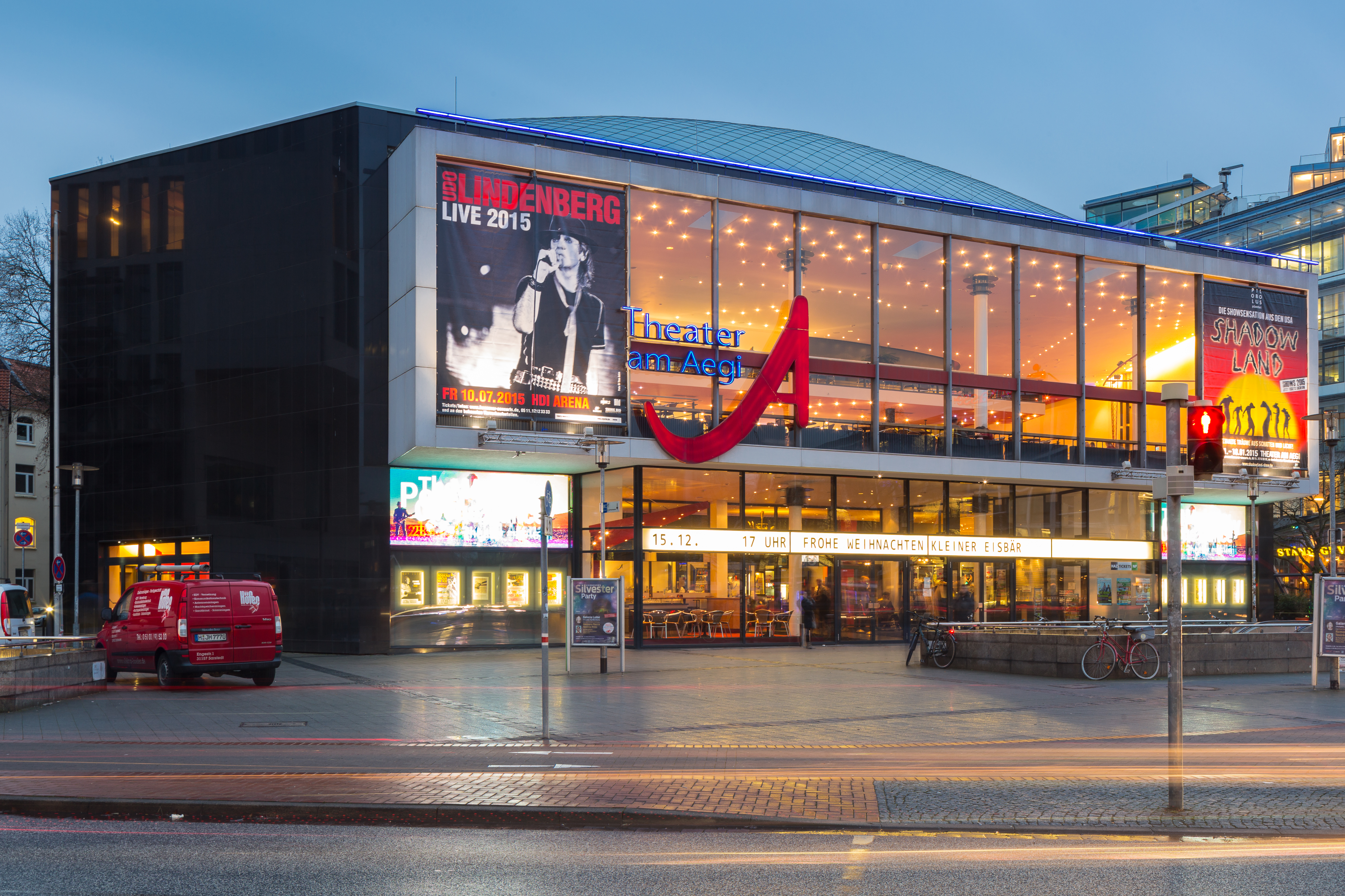 Building of the "Theater am Aegi" theater located at Aegidientorplatz in Mitte district of Hannover, Germany.